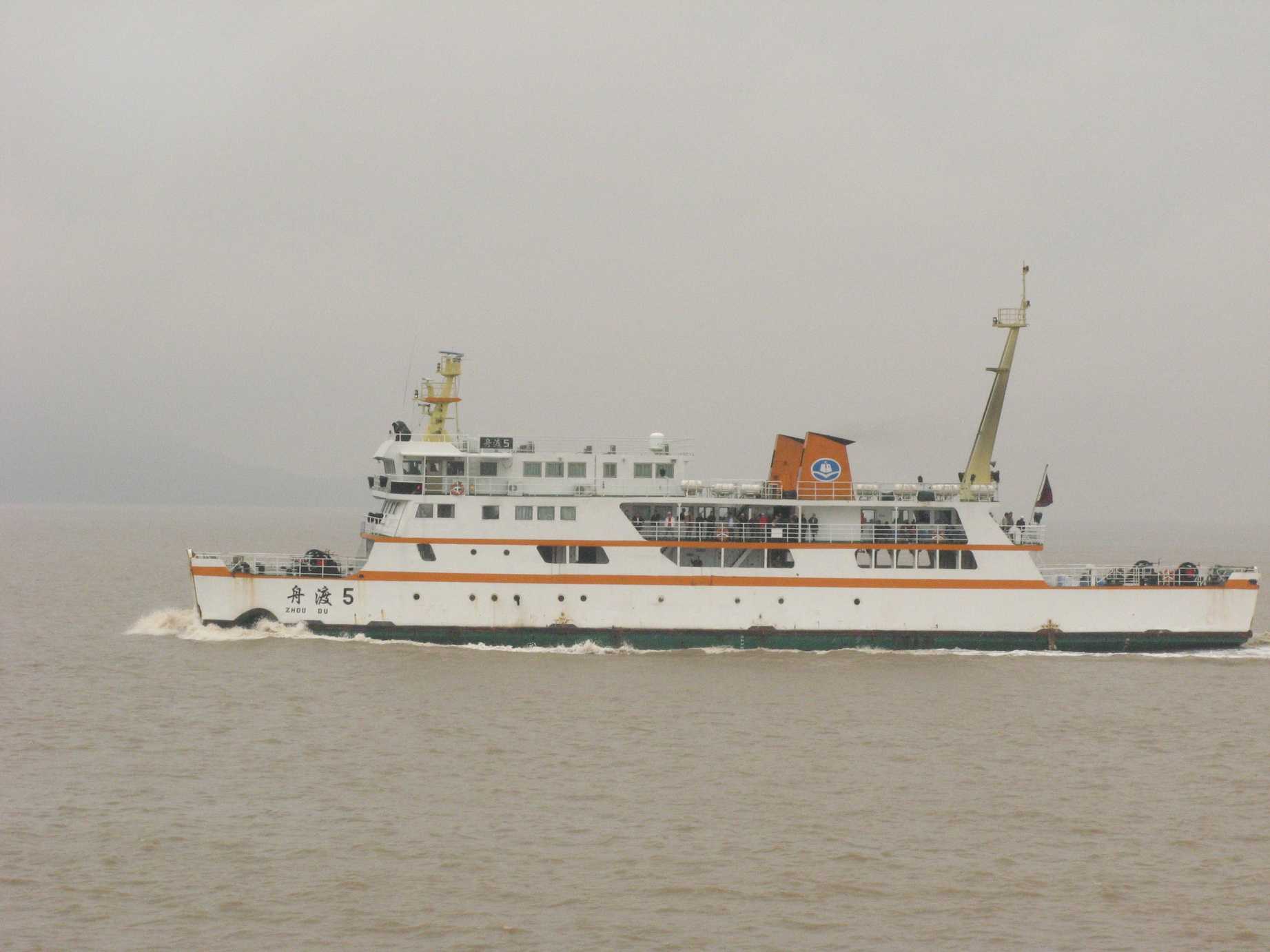 A ferryboat from Baifeng Port, Ningbo to Yadanshan Port, Zhoushan before the completion of Zhoushan Trans-oceanic Bridges. The ferry still operates in a reduced scale.